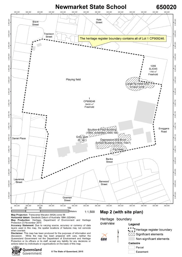 650020 Newmarket State School - map 2 (2015)